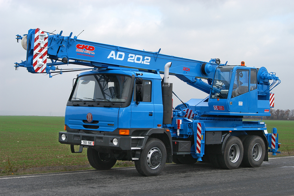 Mobile crane AD20.2